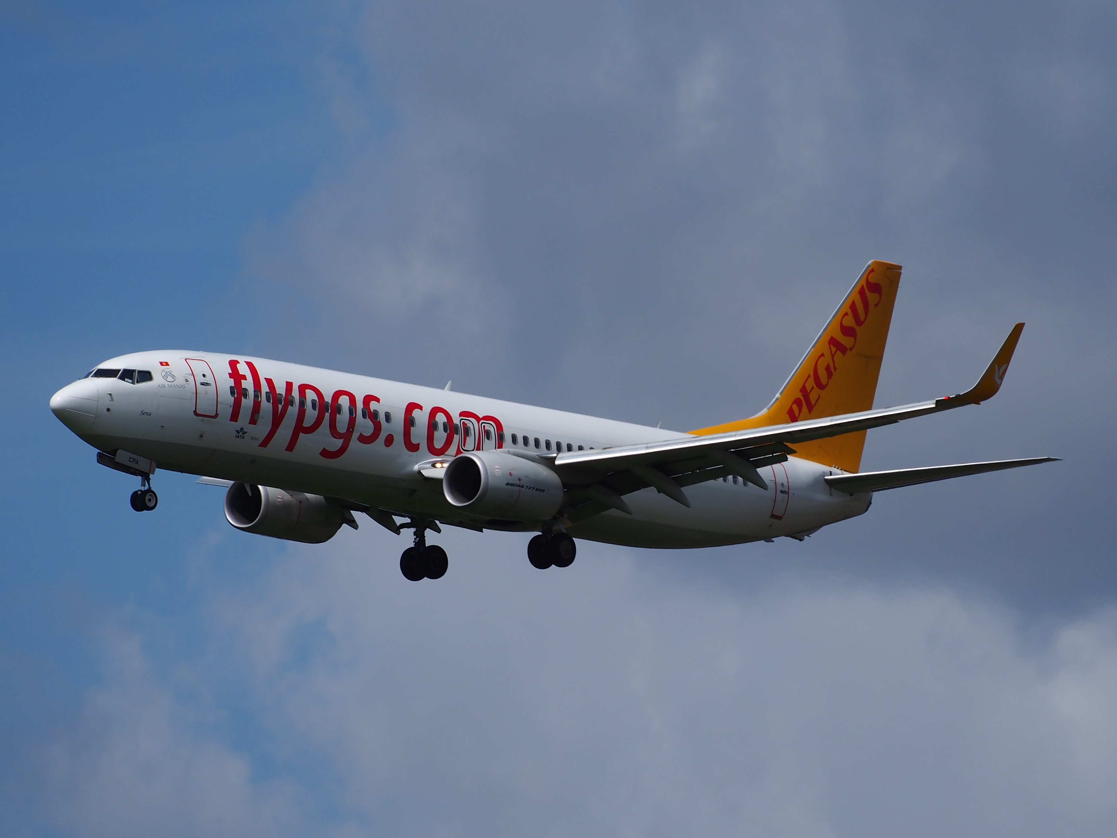 Photographed at Schiphol (AMS - EHAM), The Netherlands.